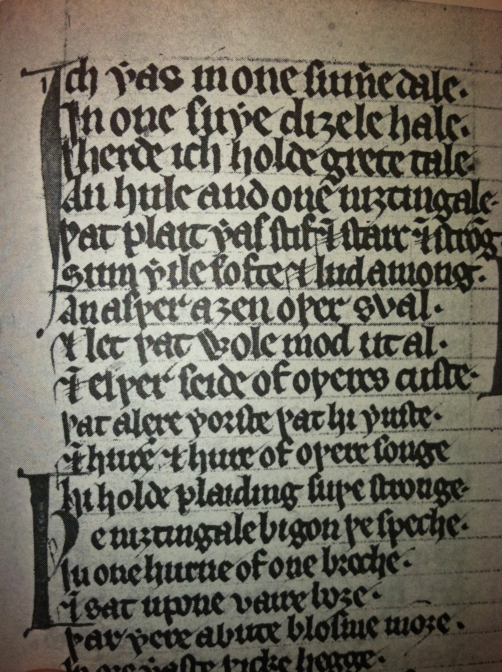 The Owl and the Nightingale. British Museum, M.S. Cotton Caligula A.IX ff. 233-46.